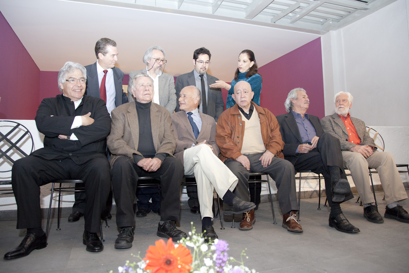 Exhibit at Fundacion Sebastian